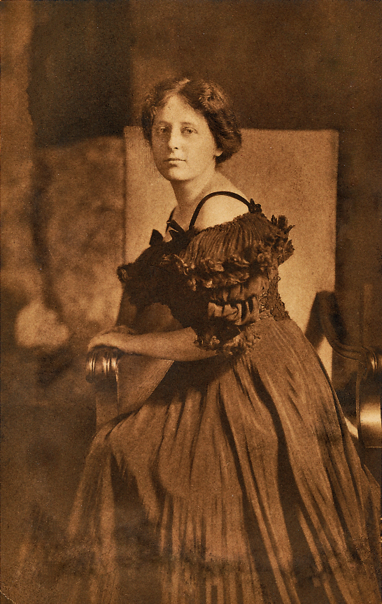 Artist Ethel Myers posing for camera. This is prior to her marriage to artist Jerome Myers